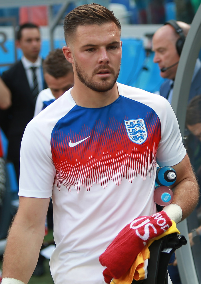 English footballer Jack Butland on 24 June 2018, during the 2018 FIFA World Cup group stage match between England and Panama.